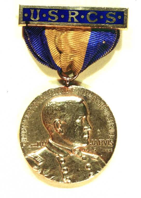 The Congressional Gold Medal awarded to David H. Jarvis for his role in the Overland Relief Expedition in Alaska in 1897. From the collection of U.S. Coast Guard Museum. Original medal.